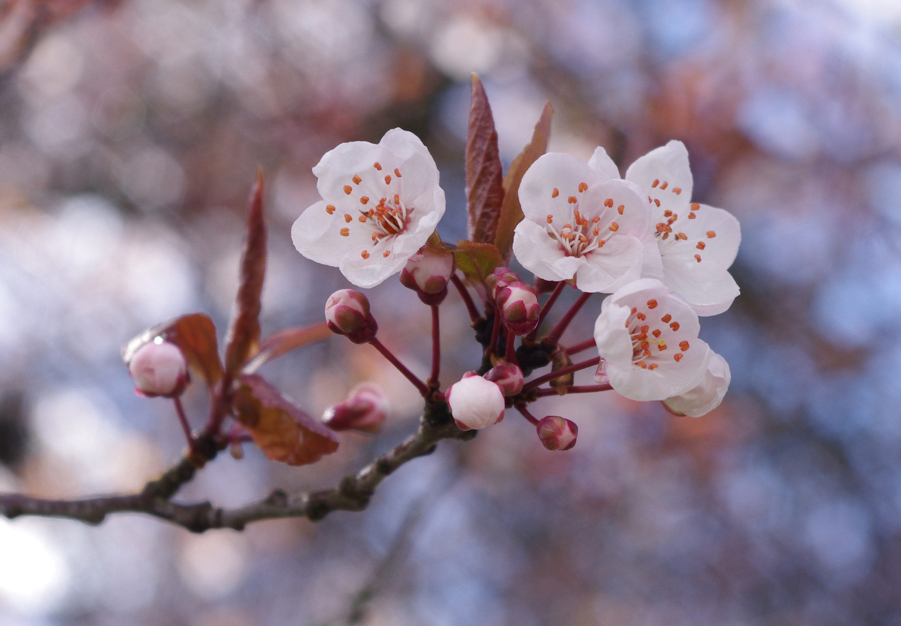 Plum blossoms in Vancouver